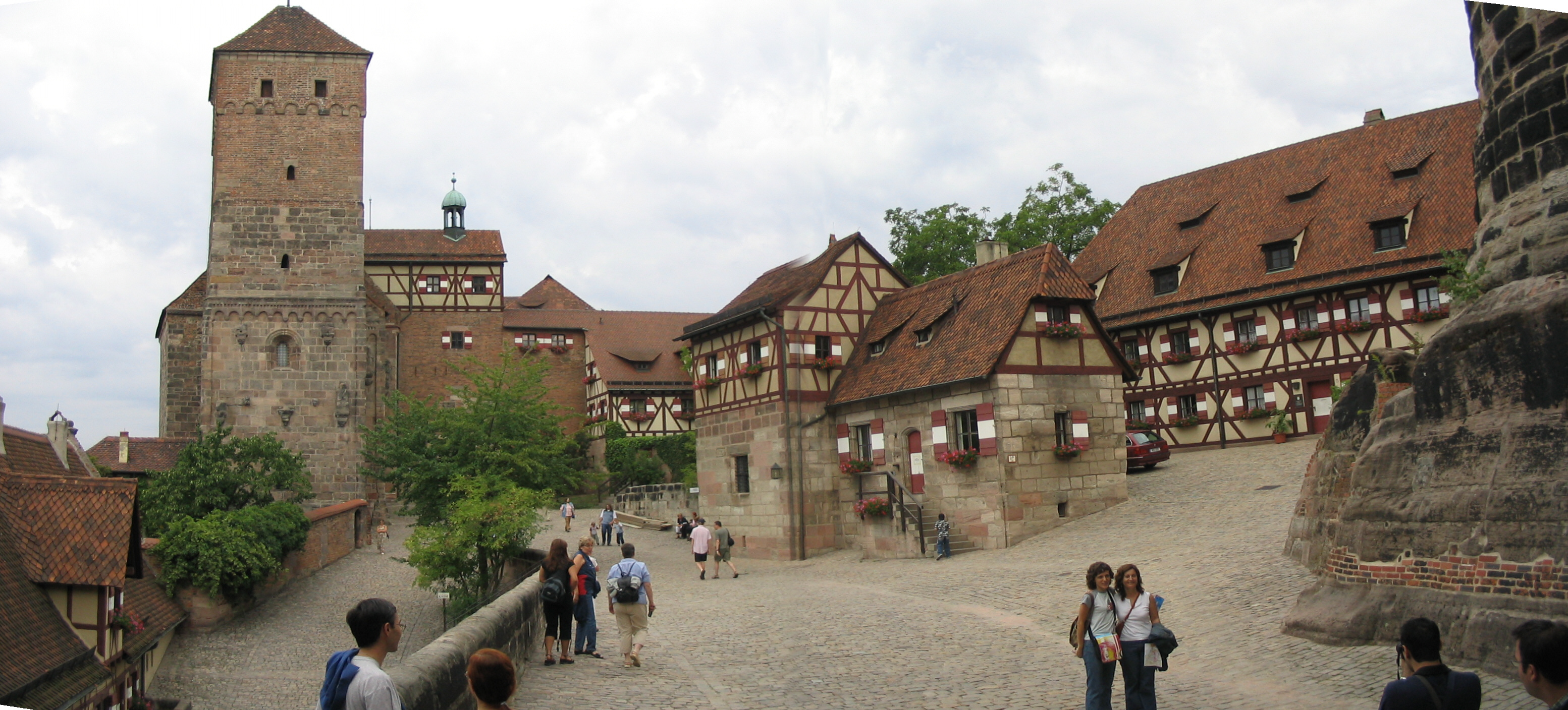 Nuremberg Castle, courtyard